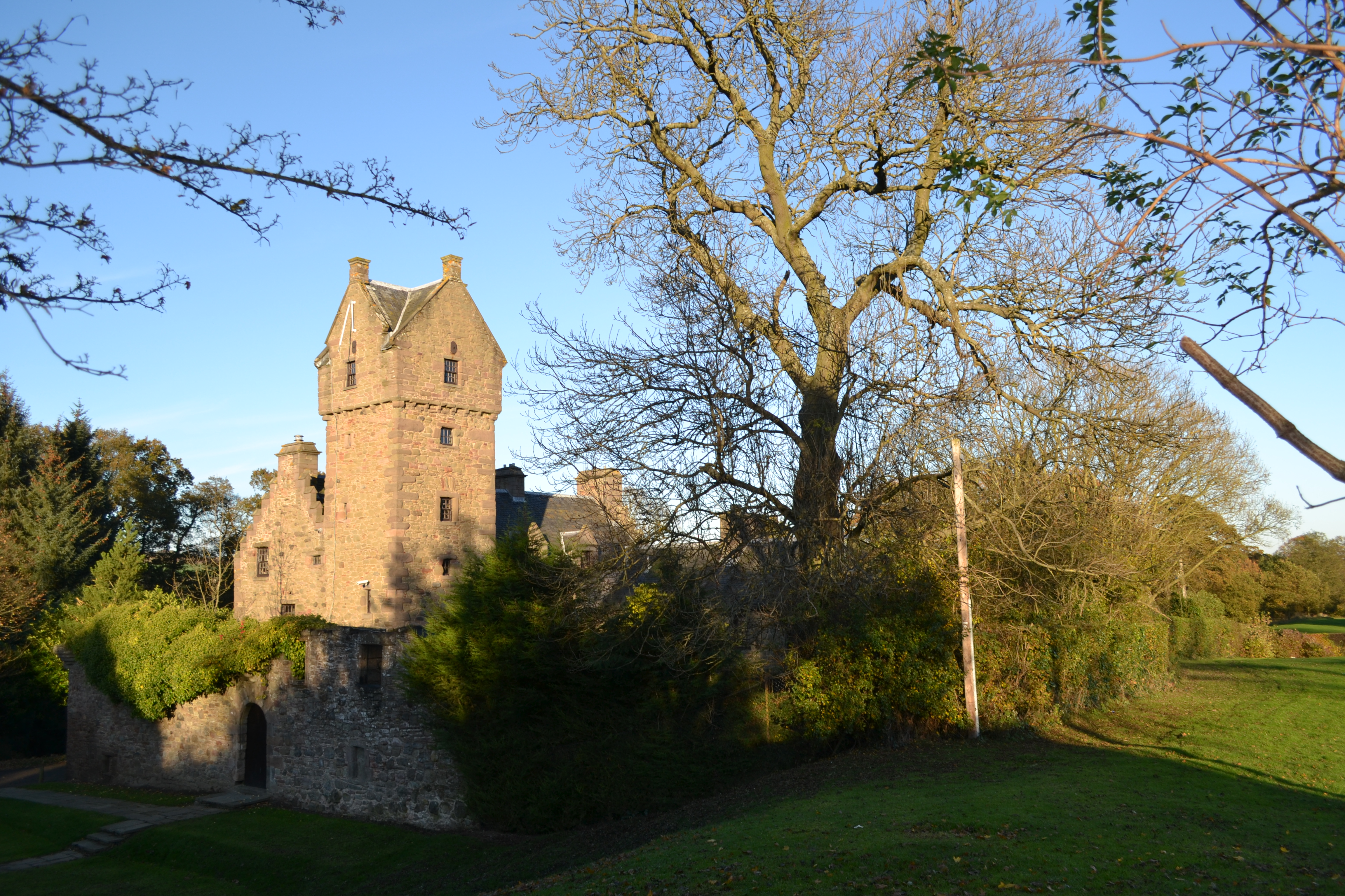 Mains Castle